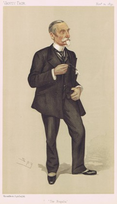 Caricature of General Sir Michael Anthony Shrapnel Biddulph KCB. Caption read "The Regalia".